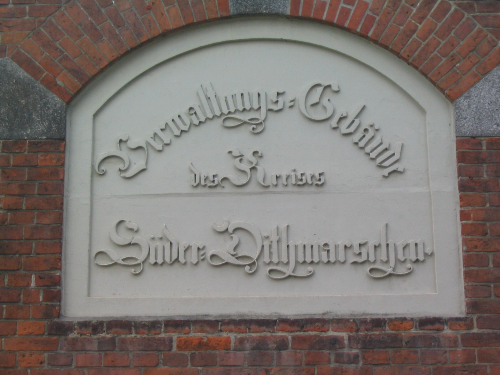 Old county administration Süderdithmarschen